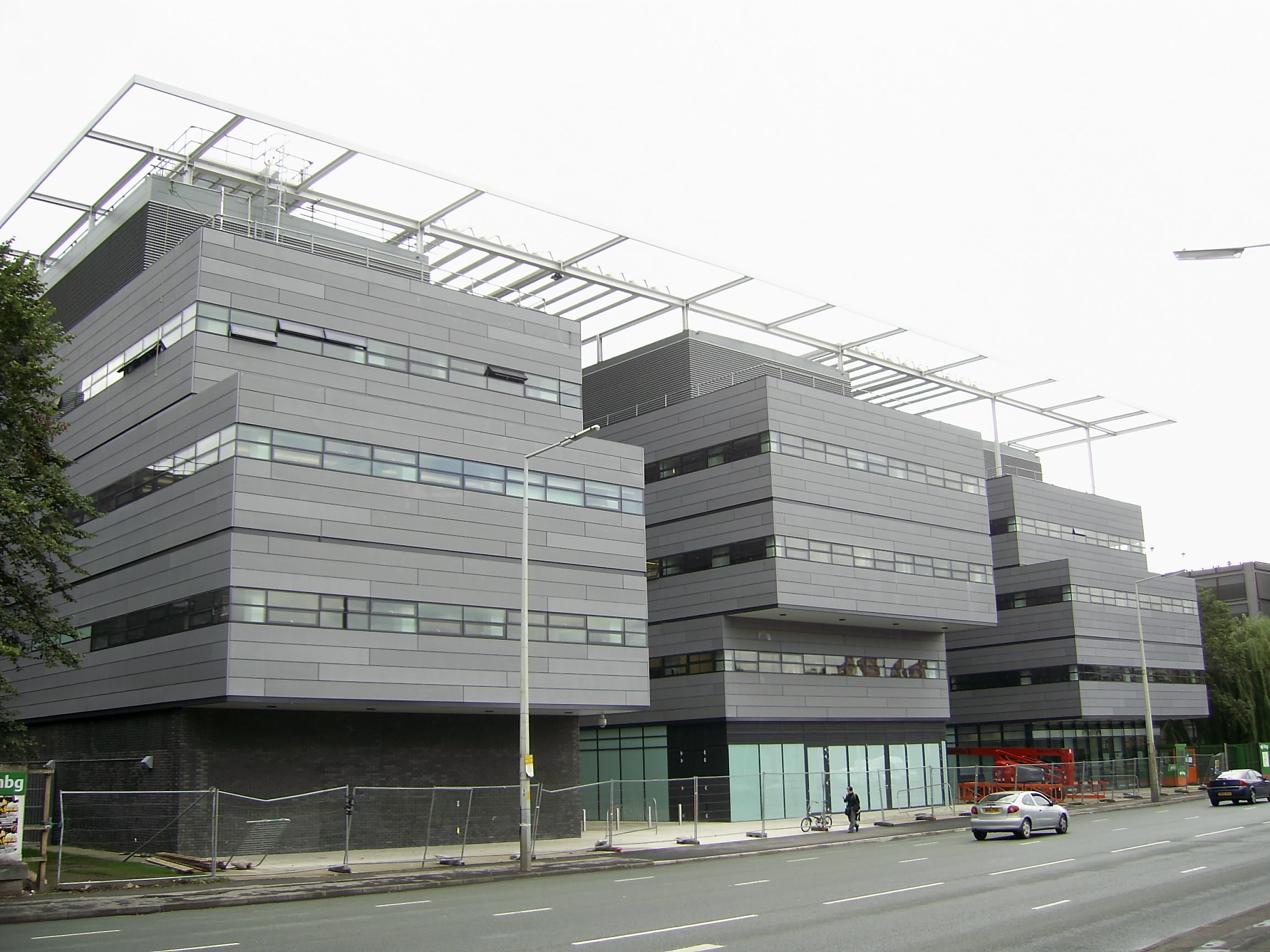 Photo taken by User:Billlion